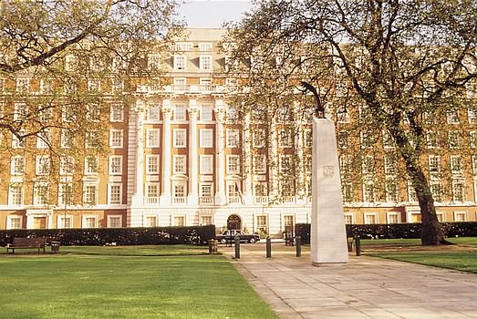 Millennium Hotel London Mayfair, Grosvenor Square entrance